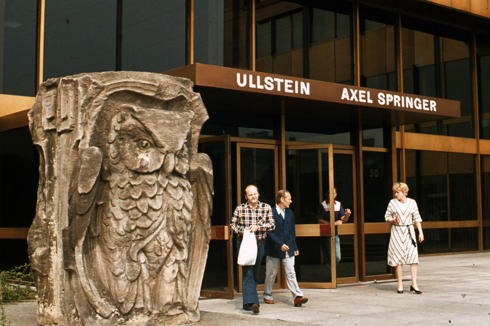 Front entrance to the Axel Springer AG headquarters building in West Berlin, with people exiting and the Fritz Klimsch owl sculpture, 1977. Other information Photo by George Garrigues.